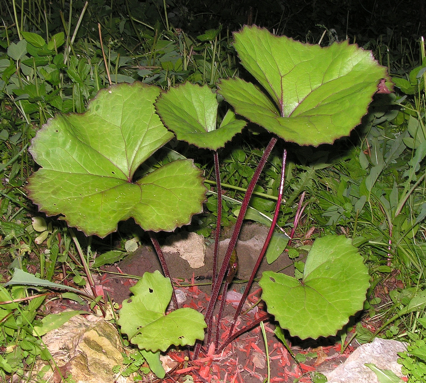 Summer ragwort (Ligularia dentata) ‘Desdemona’. Moscow region, Russia.